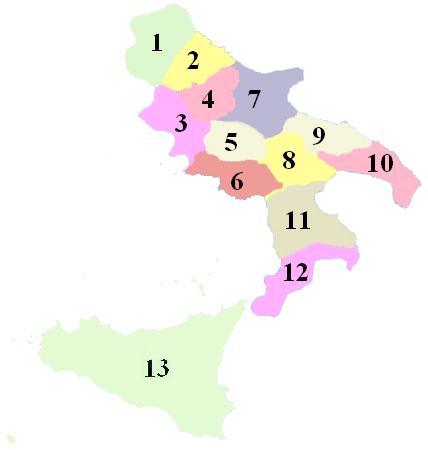 Provinces of the Two Sicilies